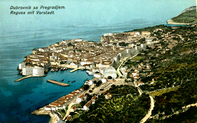 Postcard of Austro-Hungary, Dubrovnik/Ragusa, 1912